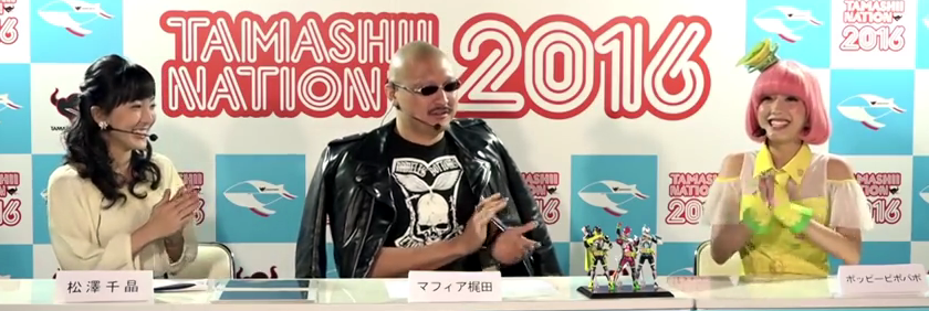 Chiaki Matsuzawa, Announcer of the Horipro Inc., Mafia Kajita, writer, and Poppy Pipopapo, Character of the Kamen Rider Ex-Aid, attended the Tamashii Nation 2016 at Akihabara UDX in Chiyoda Ward, Tōkyō Metropolis on October 28, 2016.